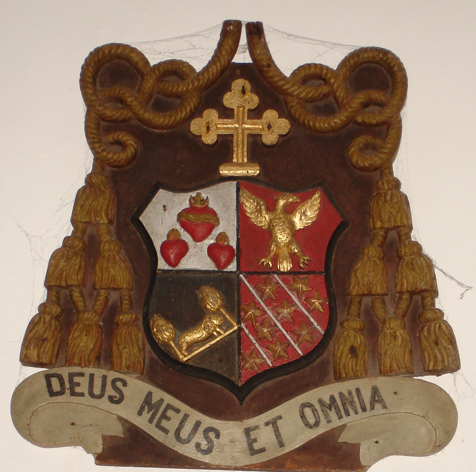 Coat of arms of Archbishop Francisco do Rego Maia (1849-1928), bishop of Niterói; bishop of Belém (Brazil).